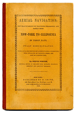 Title page of lawton R. Kennedy's 1935 reprint of Rufus Porter's 1849 pamphlet Aerial Navigation:..., H. Smith Publisher, New York 1849. Immediate image source: [1]. See also [2]. Lupo 07:42, 20 March 2006 (UTC) Since this 1935 reprint seems to have been a 100% truthful facsimile reproduction of the 1849 original (the image even shows the year 1849 as the publication date), I don't think it would be copyrightable in its own right. Lupo 07:48, 20 March 2006 (UTC)